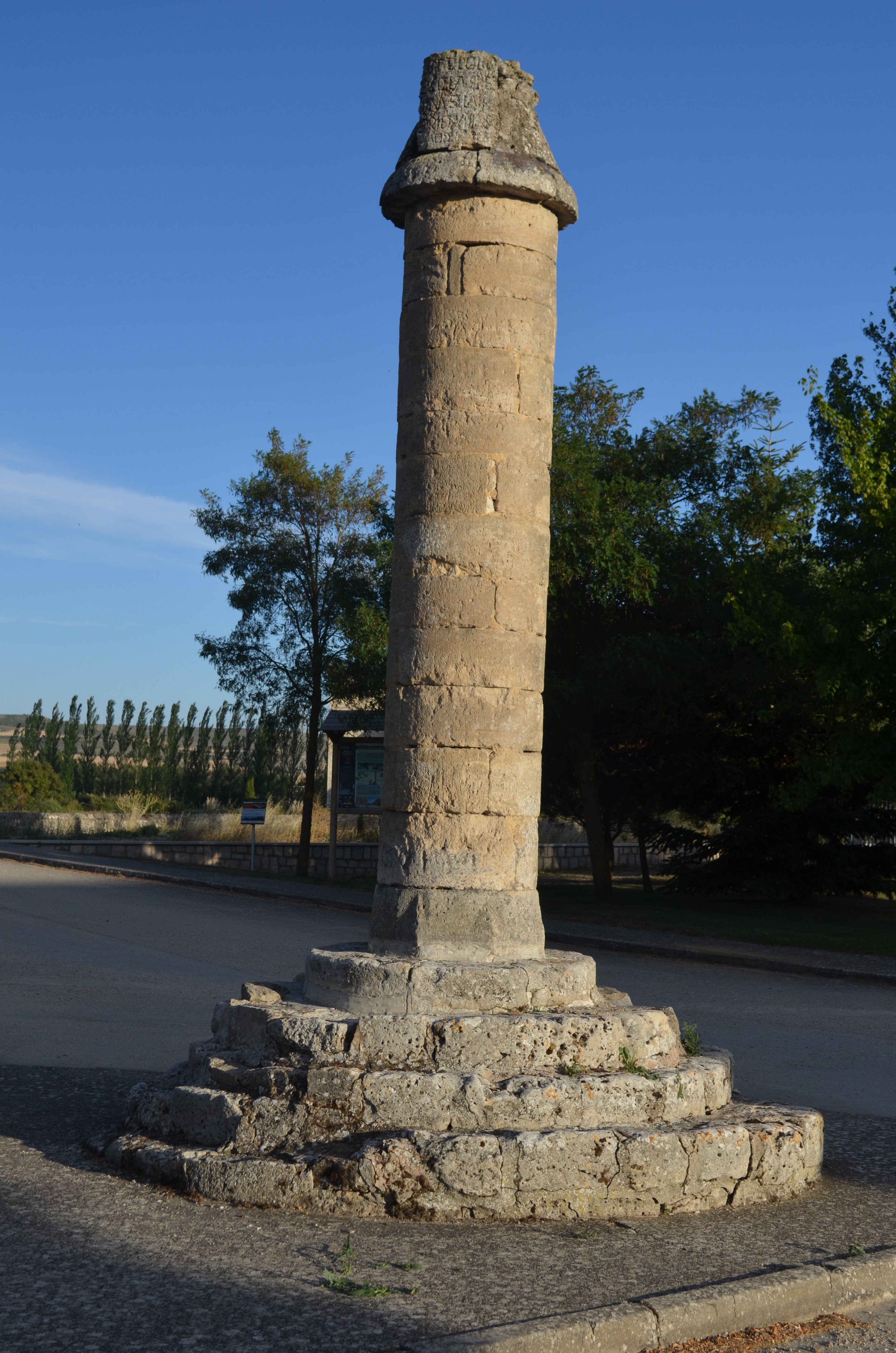 Pillory in Sotopalacios (Burgos, Spain)